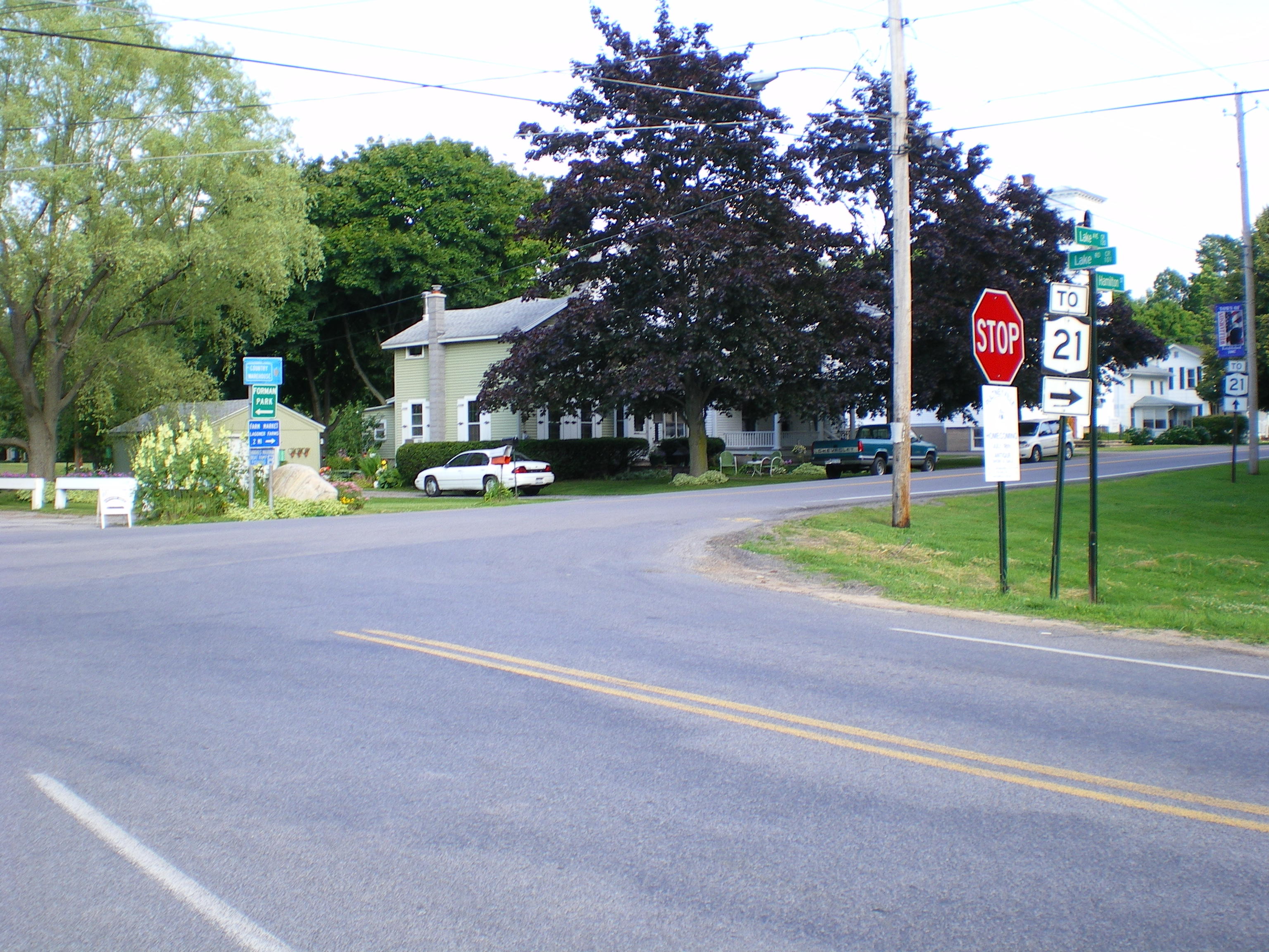 The intersection of Lake Road and Hamilton Street (Lake Avenue) in Pultneyville, New York. This was the northern terminus of New York State Route 21 from 1930 to 1980, and the "To NY 21" assemblies at the junction and on Hamilton Street may predate the 1980 truncation.